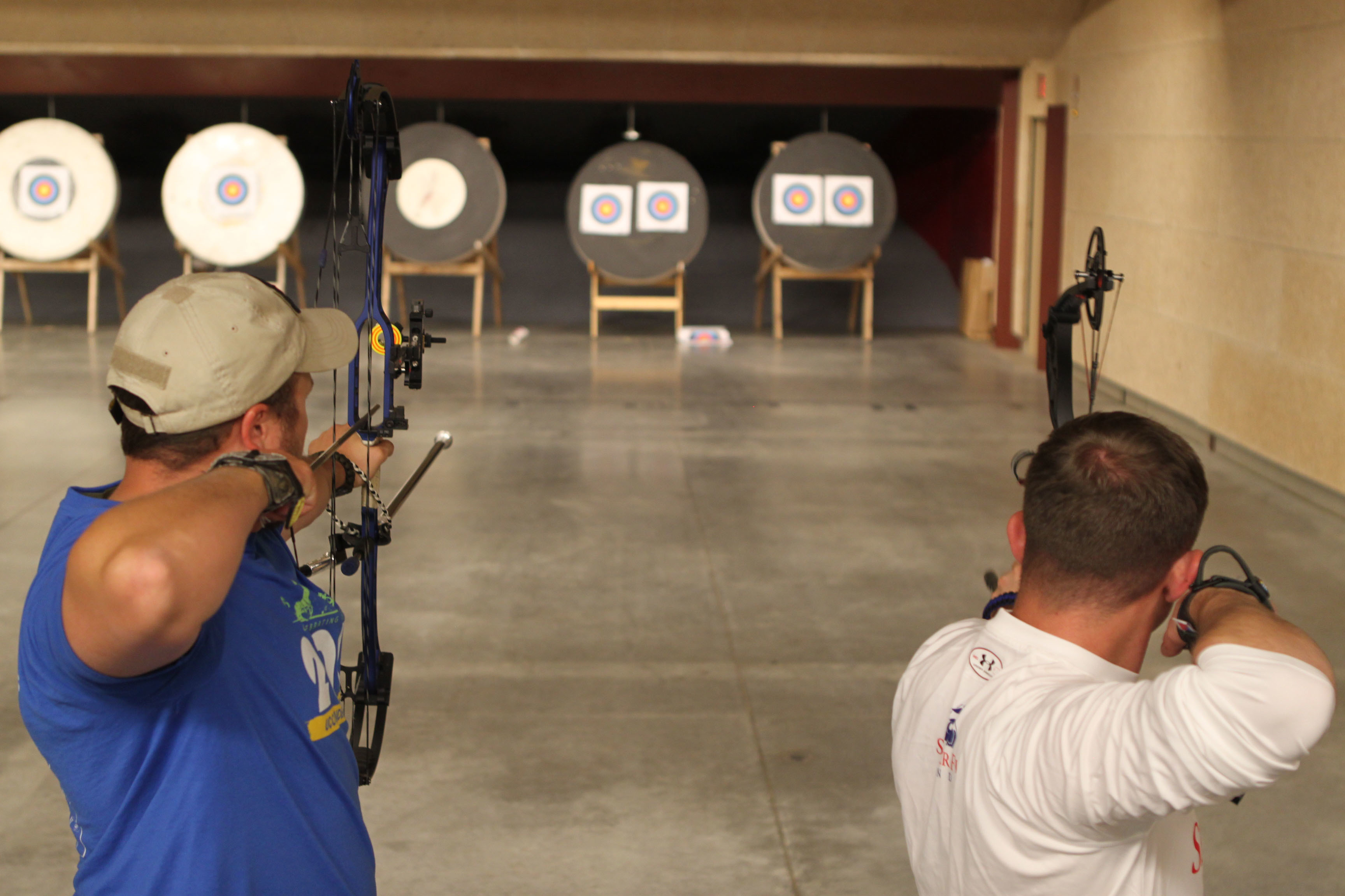 Sgt. Clayton McDaniel, a native of Molalla, Oregon, and Sgt. Allen Melick, a native of Brighton, Michigan, sight in during archery practice for the Marine team, Sept. 20, in preparation for the 2014 Warrior Games. The Marine team has been training since Sept. 15 in order to build team cohesion and acclimate to the above 6,000 feet altitude of Colorado Springs. The Marine team is comprised of both active duty and veteran wounded, ill and injured Marines who are attached to or supported by the Wounded Warrior Regiment, the official unit of the Marine Corps charged with providing comprehensive non-medical recovery care to wounded, ill and injured Marines. The Warrior Games are a Paralympic-style competition for more than 200 wounded, ill and injured servicemembers and are taking place Sept. 28 to Oct. 5 at the Olympic Training Center in Colorado Springs, Colorado. Follow the Marine team's progress at